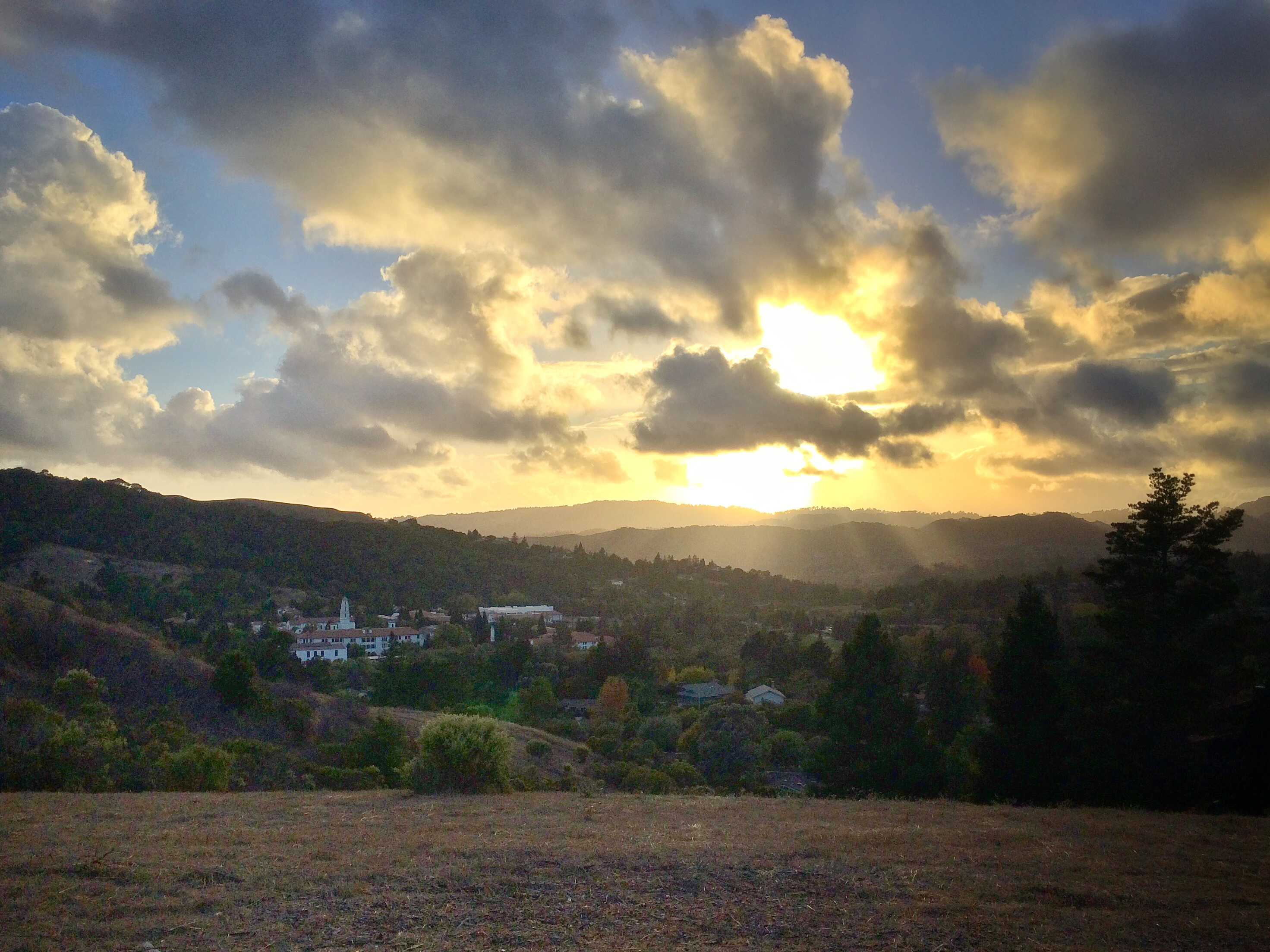 Moraga, California in 2014